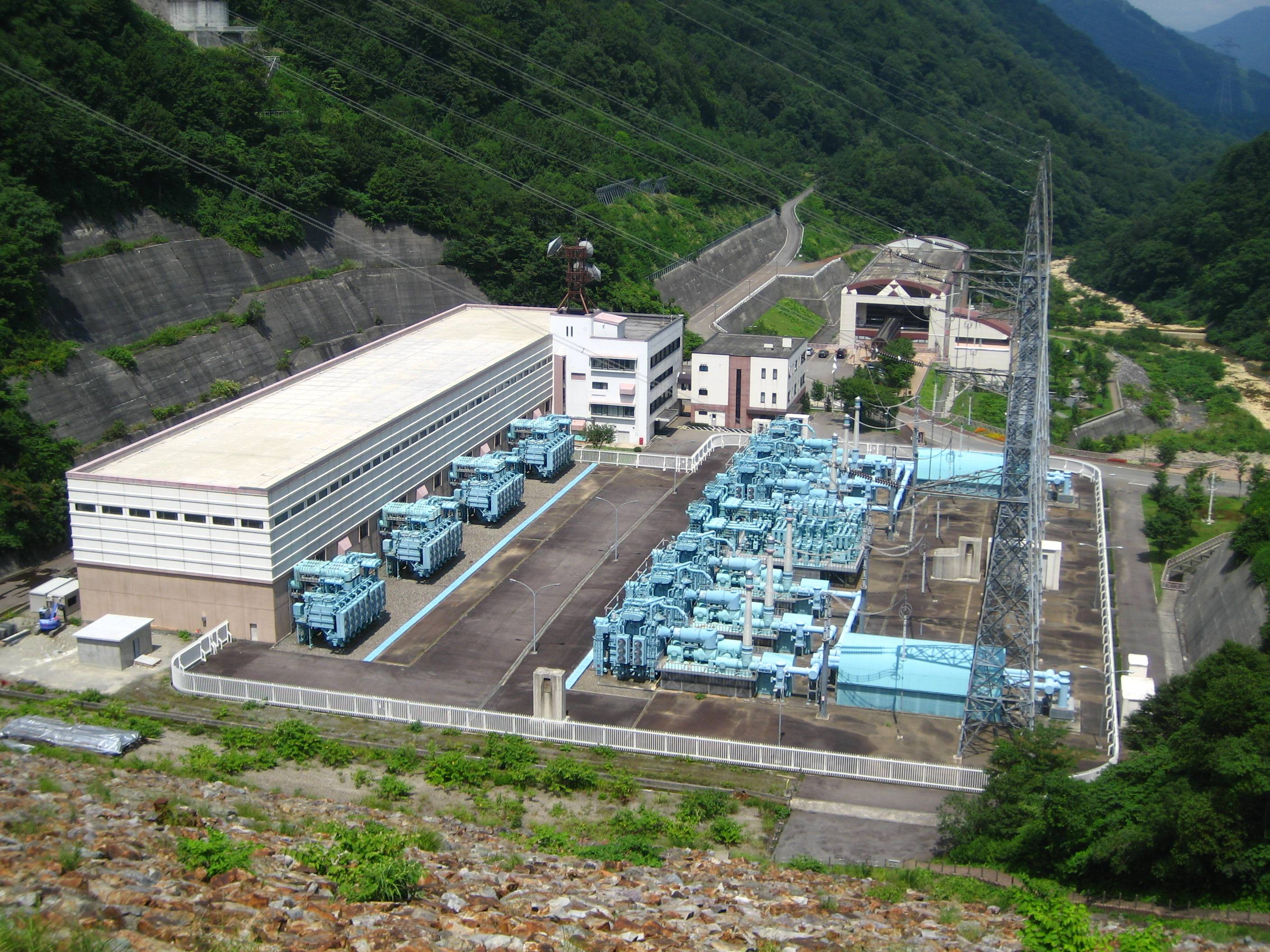 Futai Dam (二居ダム) in Yuzawa, Niigata, Japan.